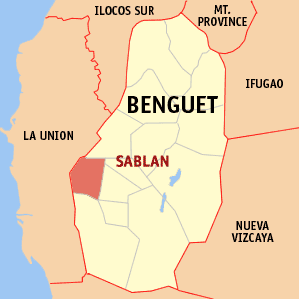 Map of Benguet showing the location of Sablan